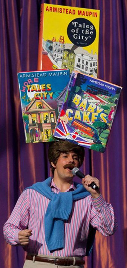 Xopher Goodwin, as cast member of Beach Blanket Babylon, at the Tales of the City Opening Night Gala. yes, that is a hat in the shape of the books. dont ask, just enjoy. it gets worse.